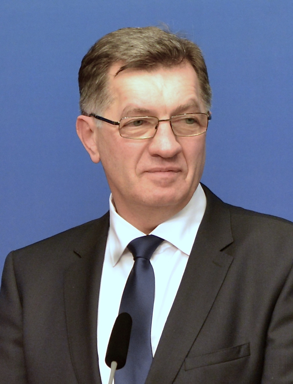 Algirdas Butkevičius on the press conference with the Nordic and Baltic prime ministers before the Nordic Council Session in Stockholm October 27, 2014.